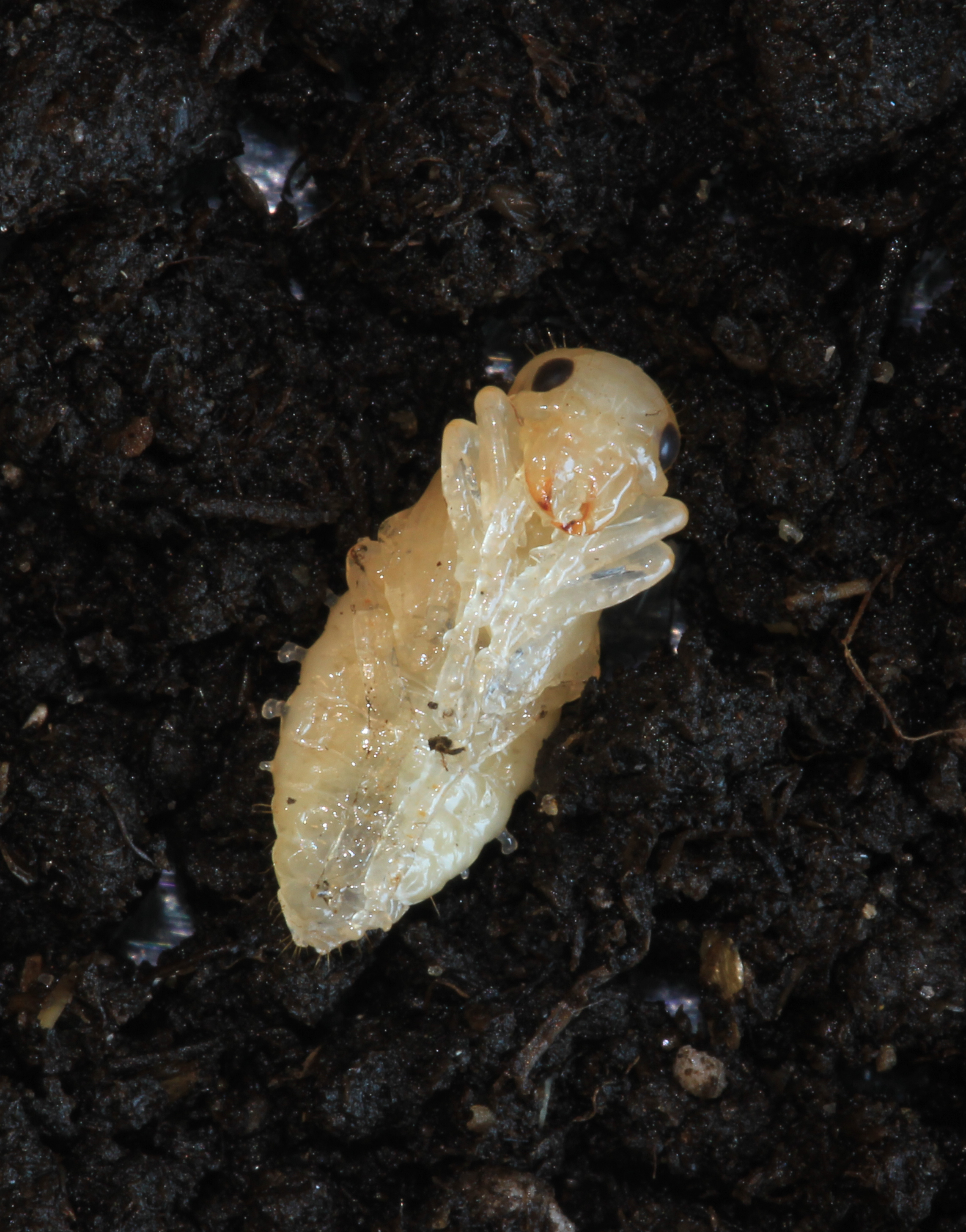 Pterostichus melanarius pupa